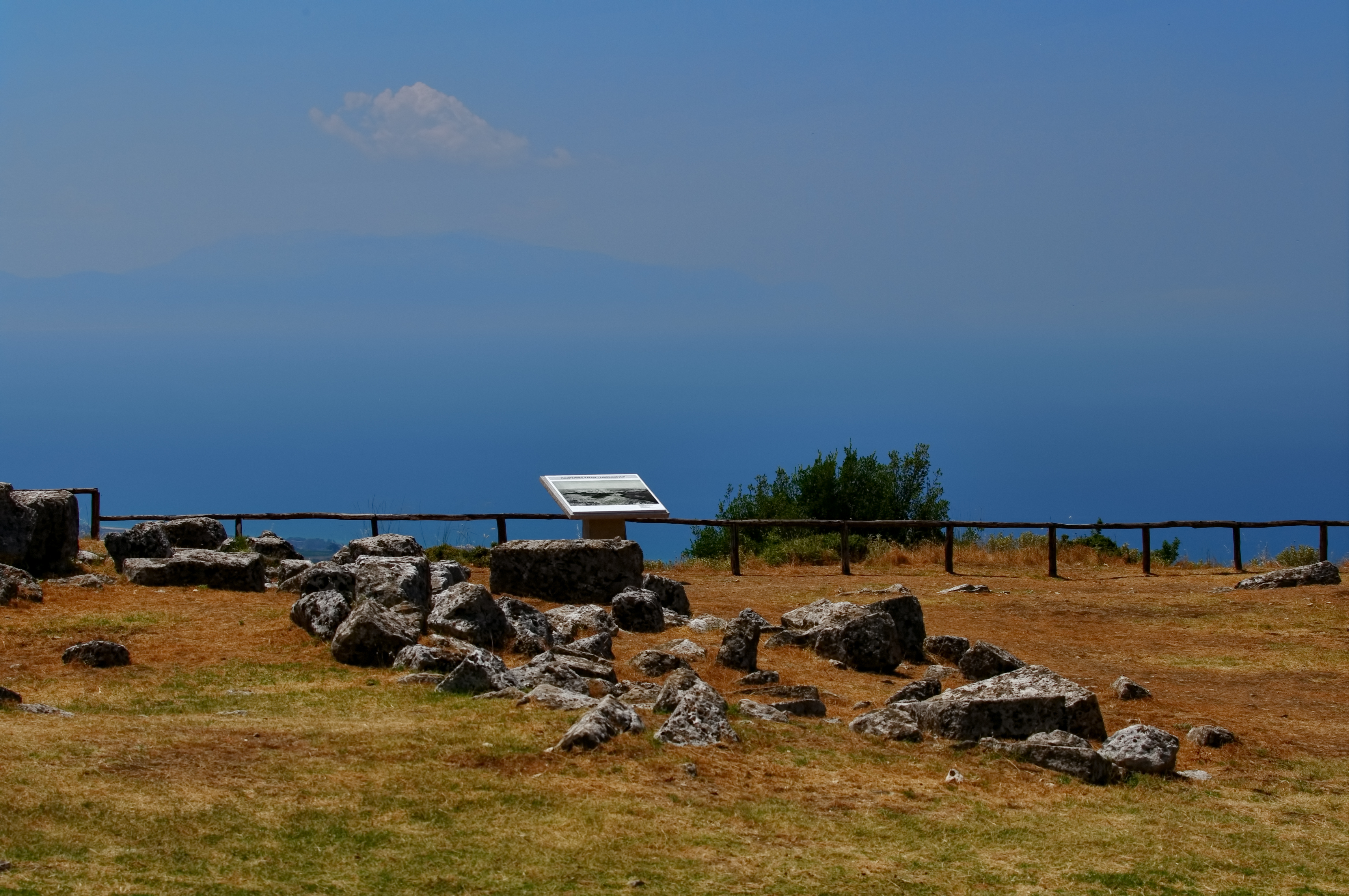 Cassope, view from the Odeon-Bouleuterion«Κασσώπη»